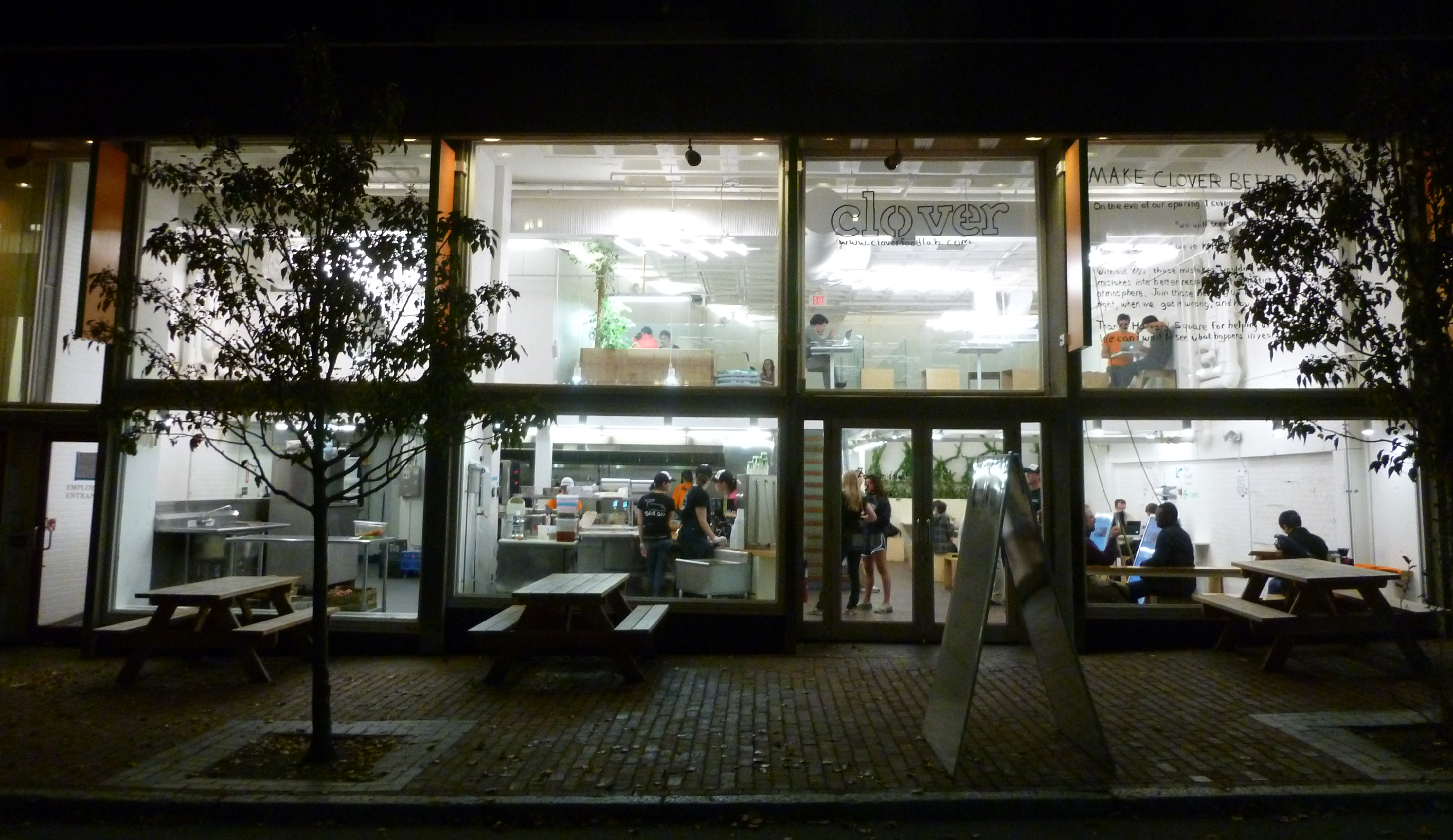 Clover Food Lab's restaurant in Harvard Square. Located at 7 Holyoke Street, Cambridge, Massachusetts.